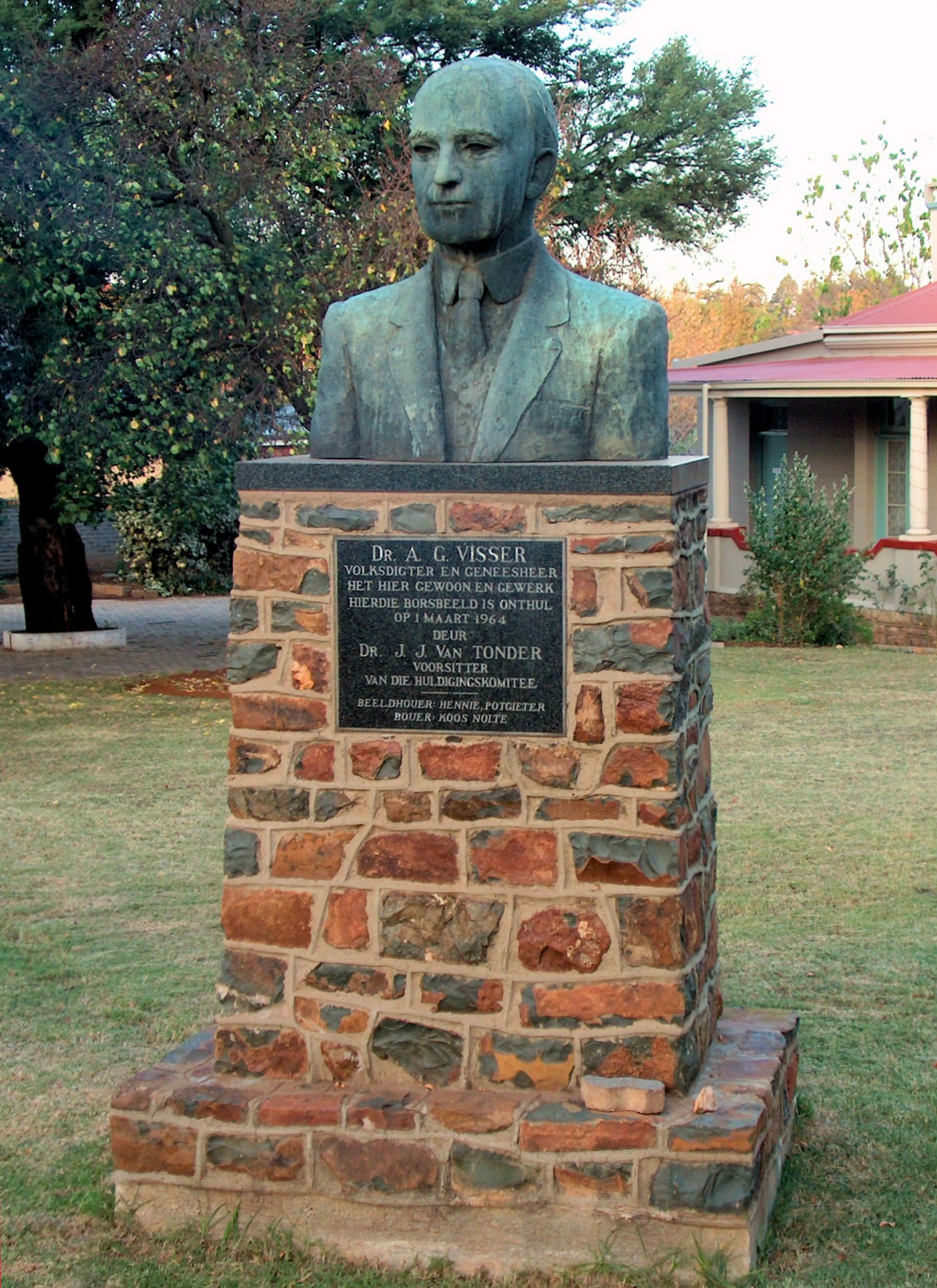 Bust and house of Dr. A.G. Visser, in Heidelberg, Gauteng